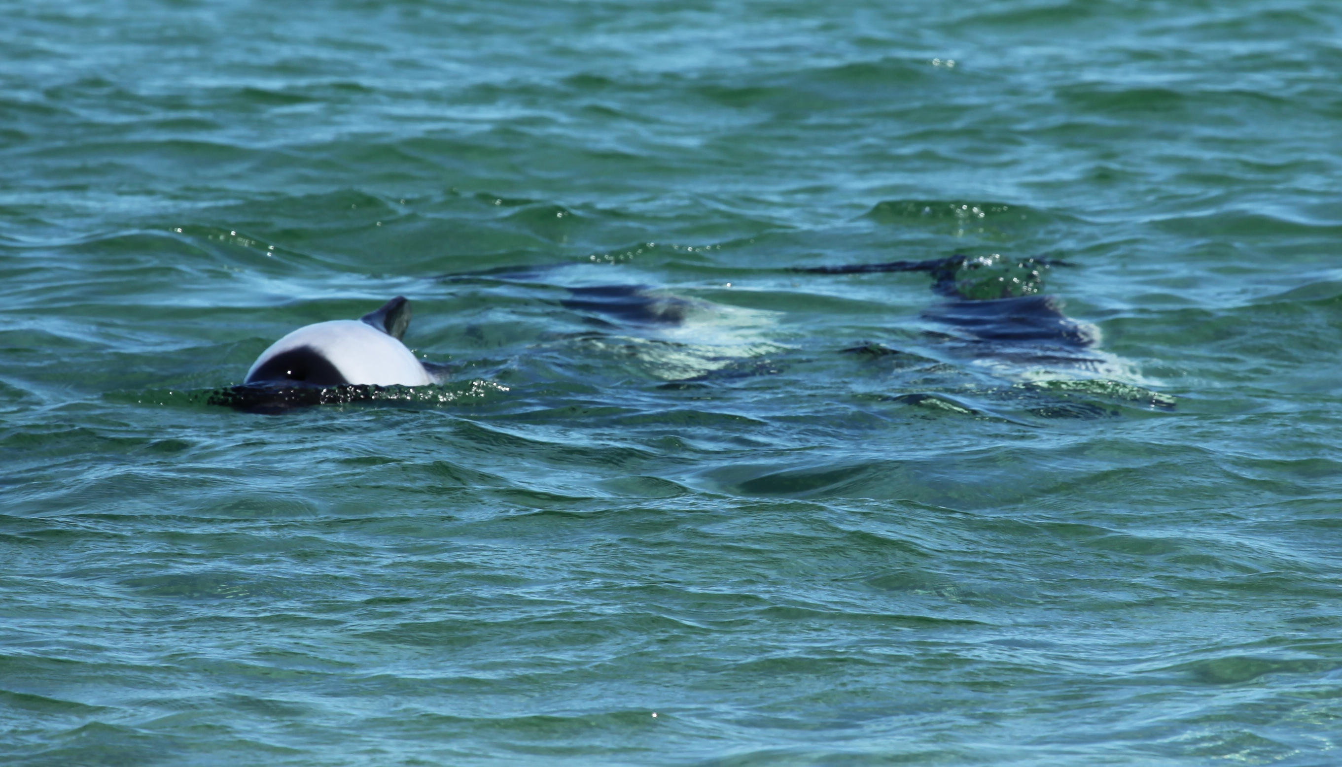 These cute dolphins escorted our Zodiacs to shore at Saunders Island in the Falkland Islands.